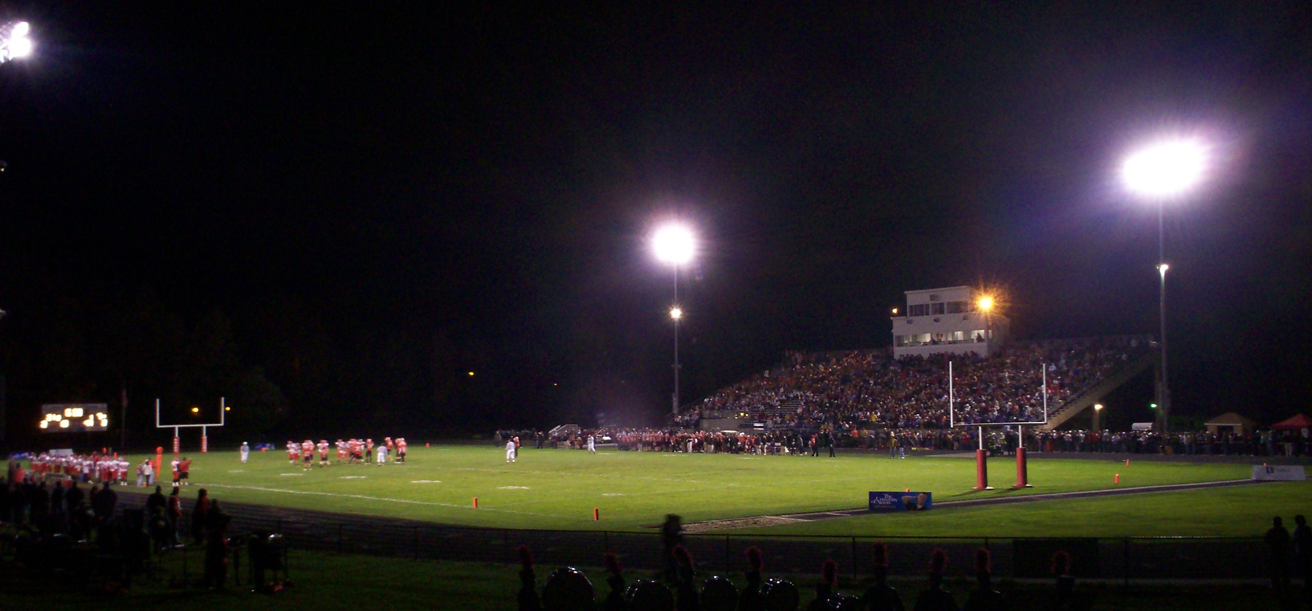 Photo of night homecoming football game at Theodore Roosevelt High School in Kent, Ohio between Roosevelt High School and Crestwood High School.